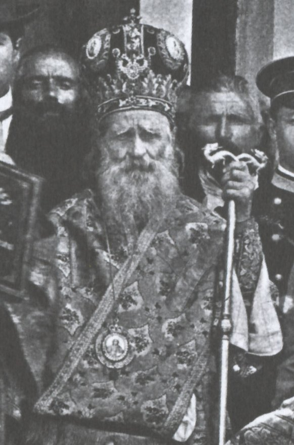 Gregory of Nevrokop